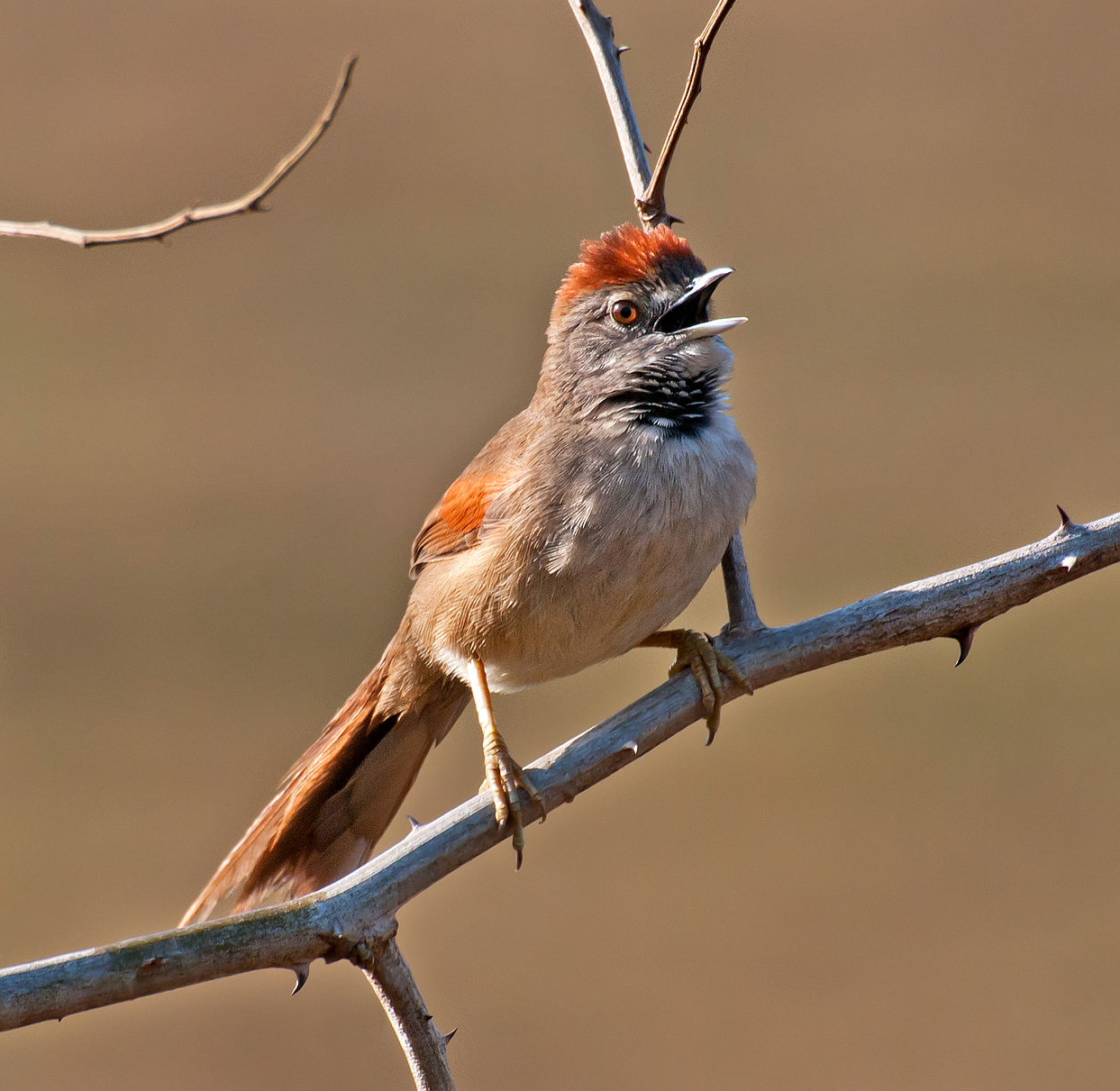 A Pale-breasted Spinetail in Piraju, São Paulo, Brazil.